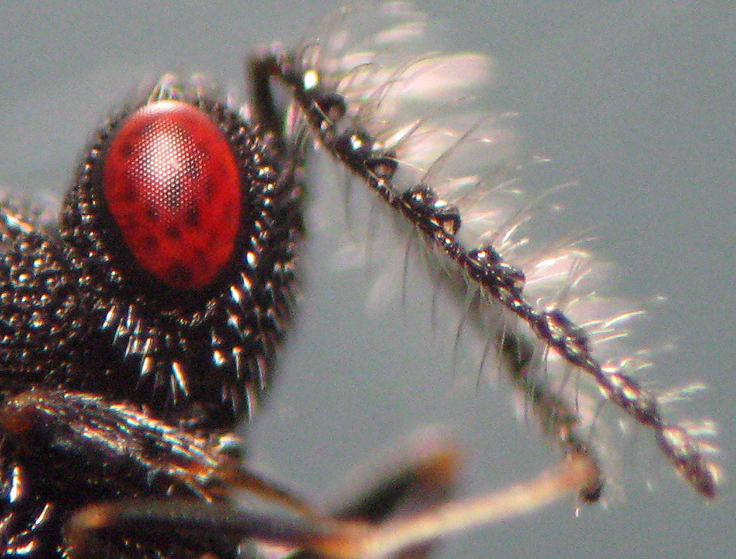 Head of an insect with compound eye and antenna.